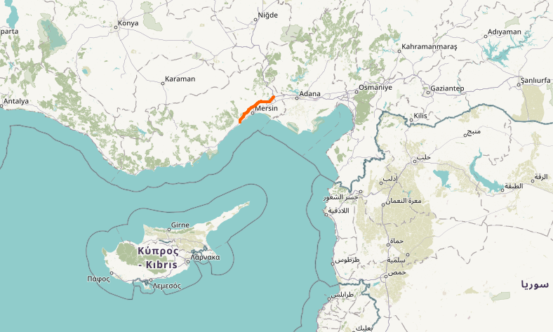 European route E982 route